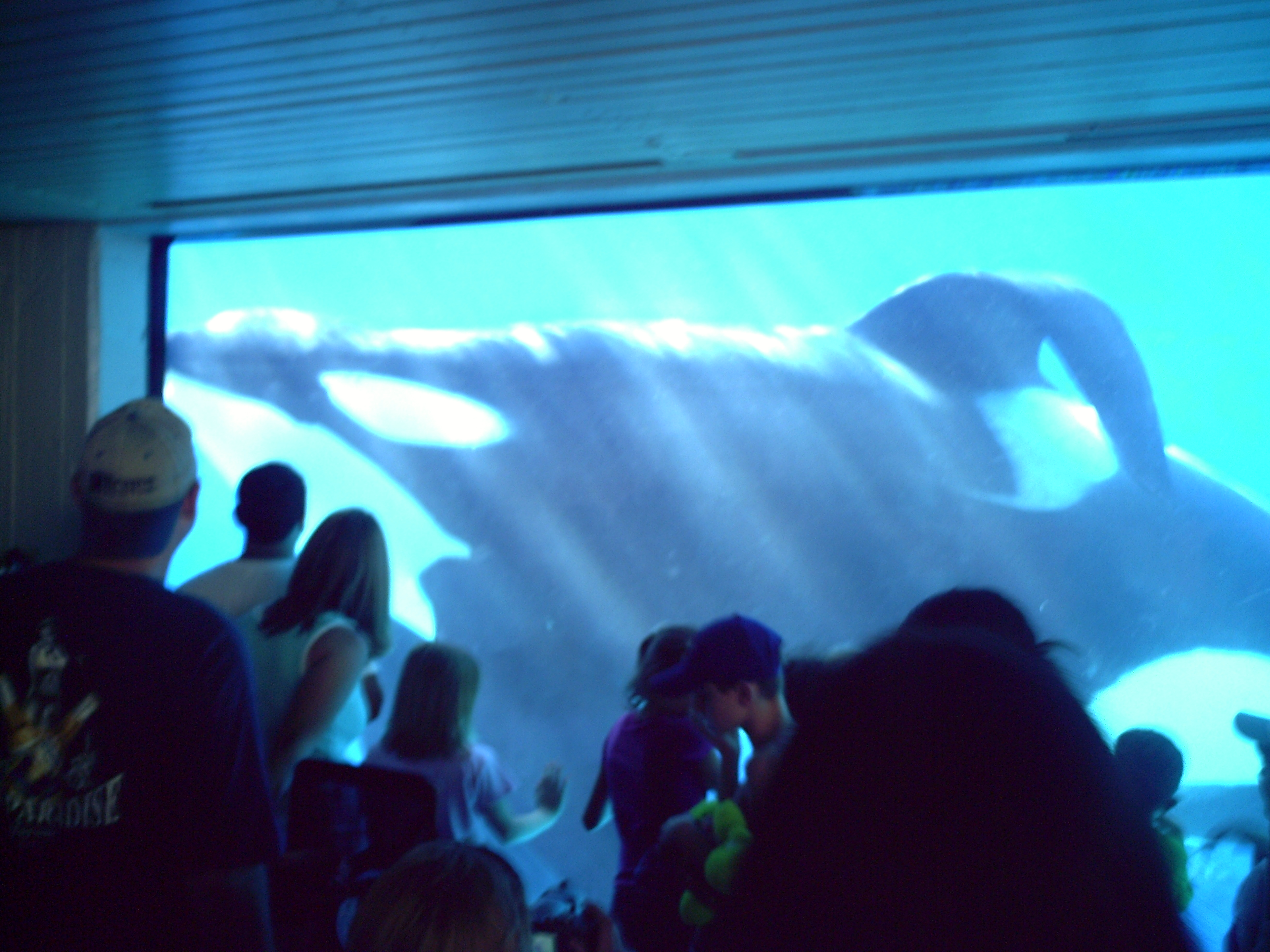 Tilikum, an Orca at Sea World Orlando.